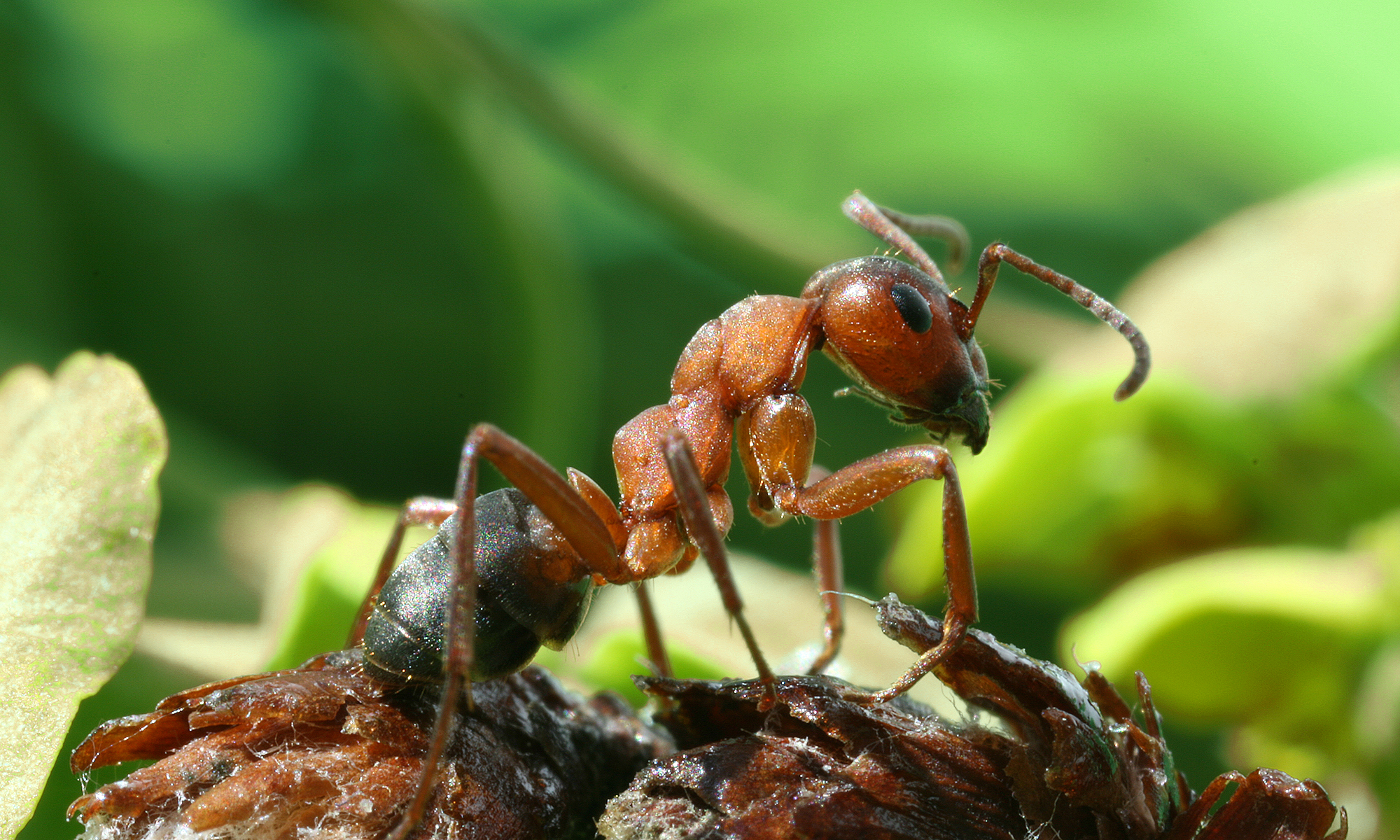 Description: detailed sideview of a Formica rufa